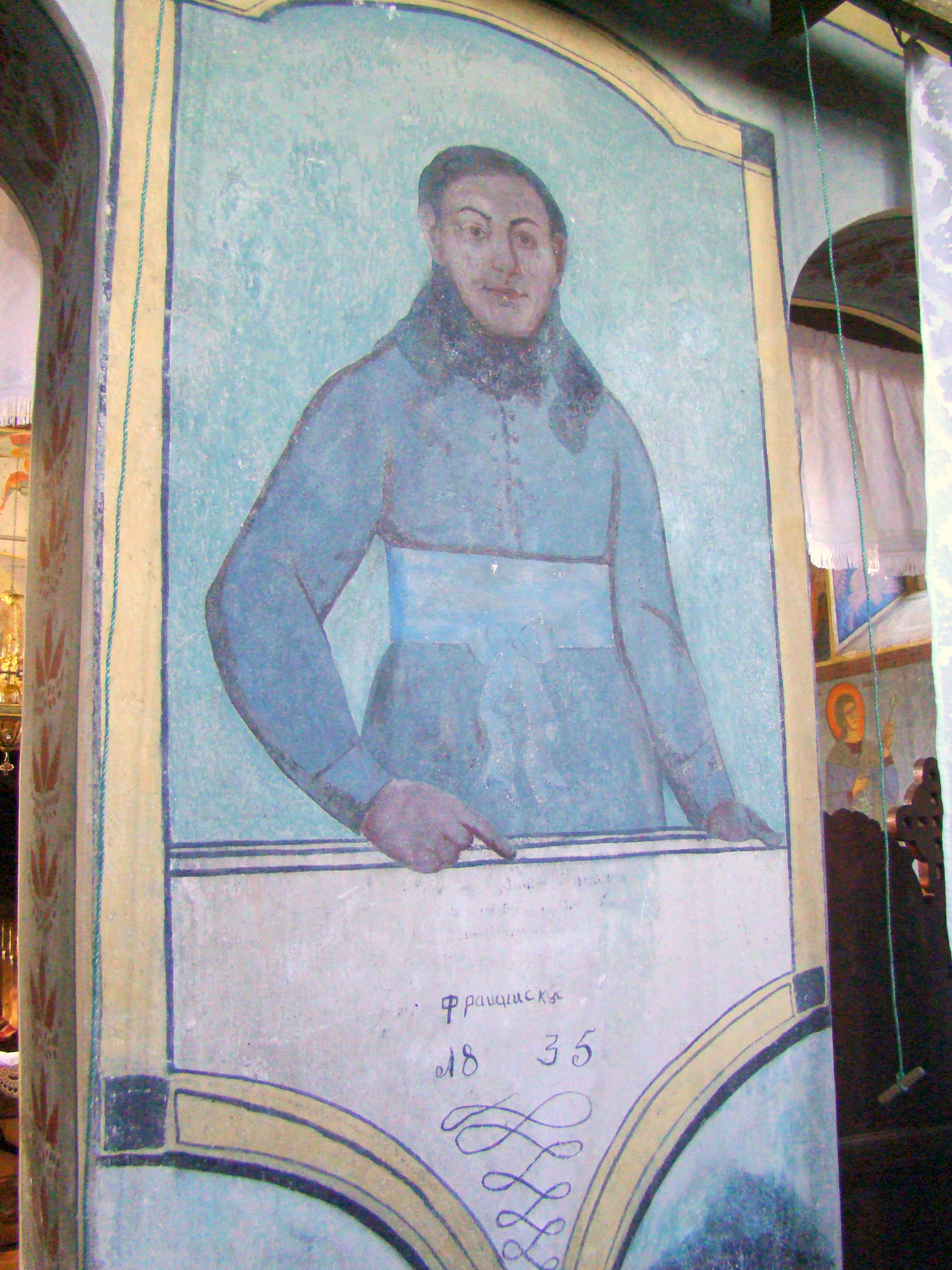 Church of the Transfiguration in Almașu Mare, Alba county, Romania